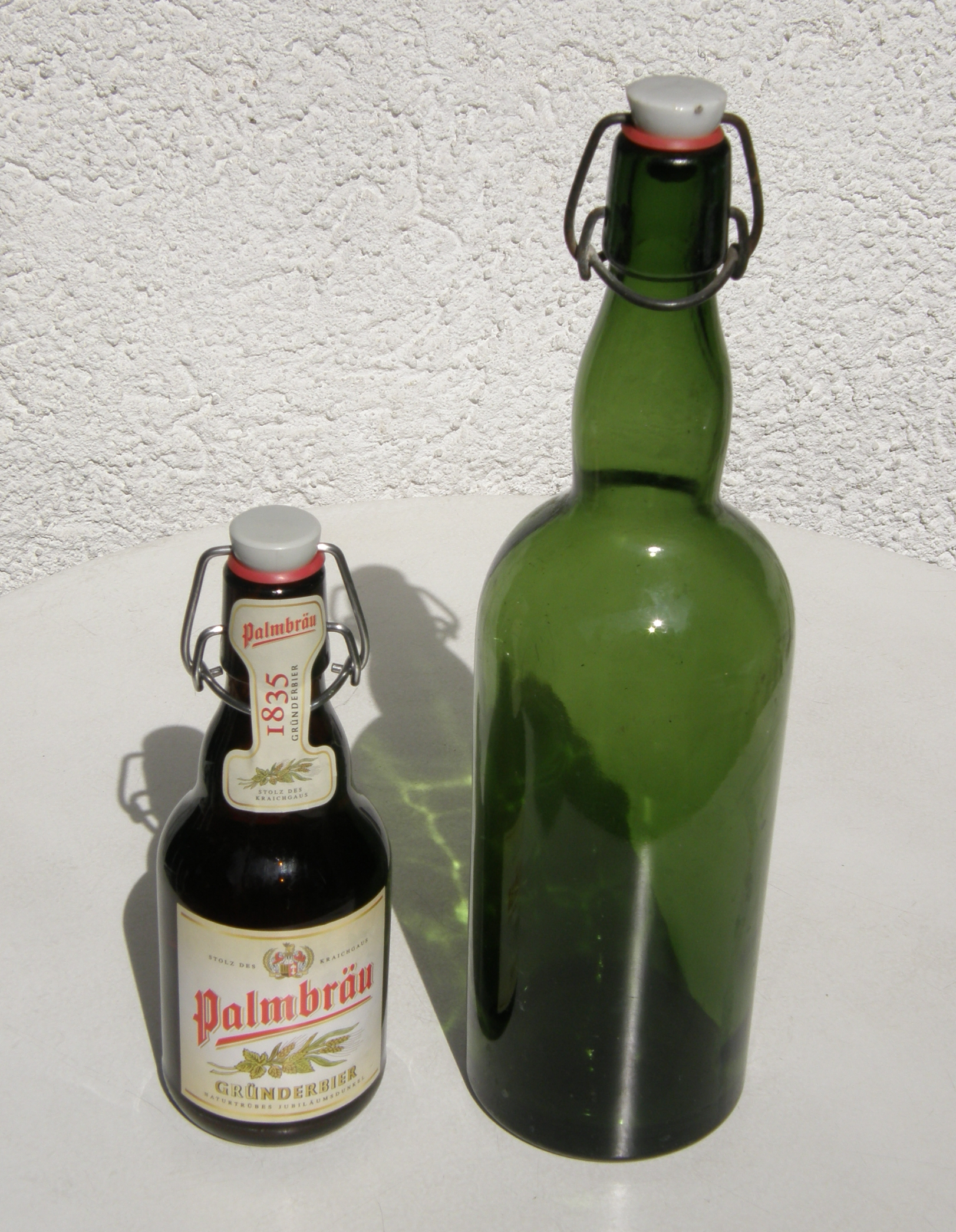 Swingtop Beerbottles 0,33 and Greenglas 1,0 Ltr.